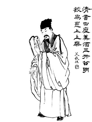 Qing Dynasty Romance of the Three Kingdoms illustration of Guan Lu